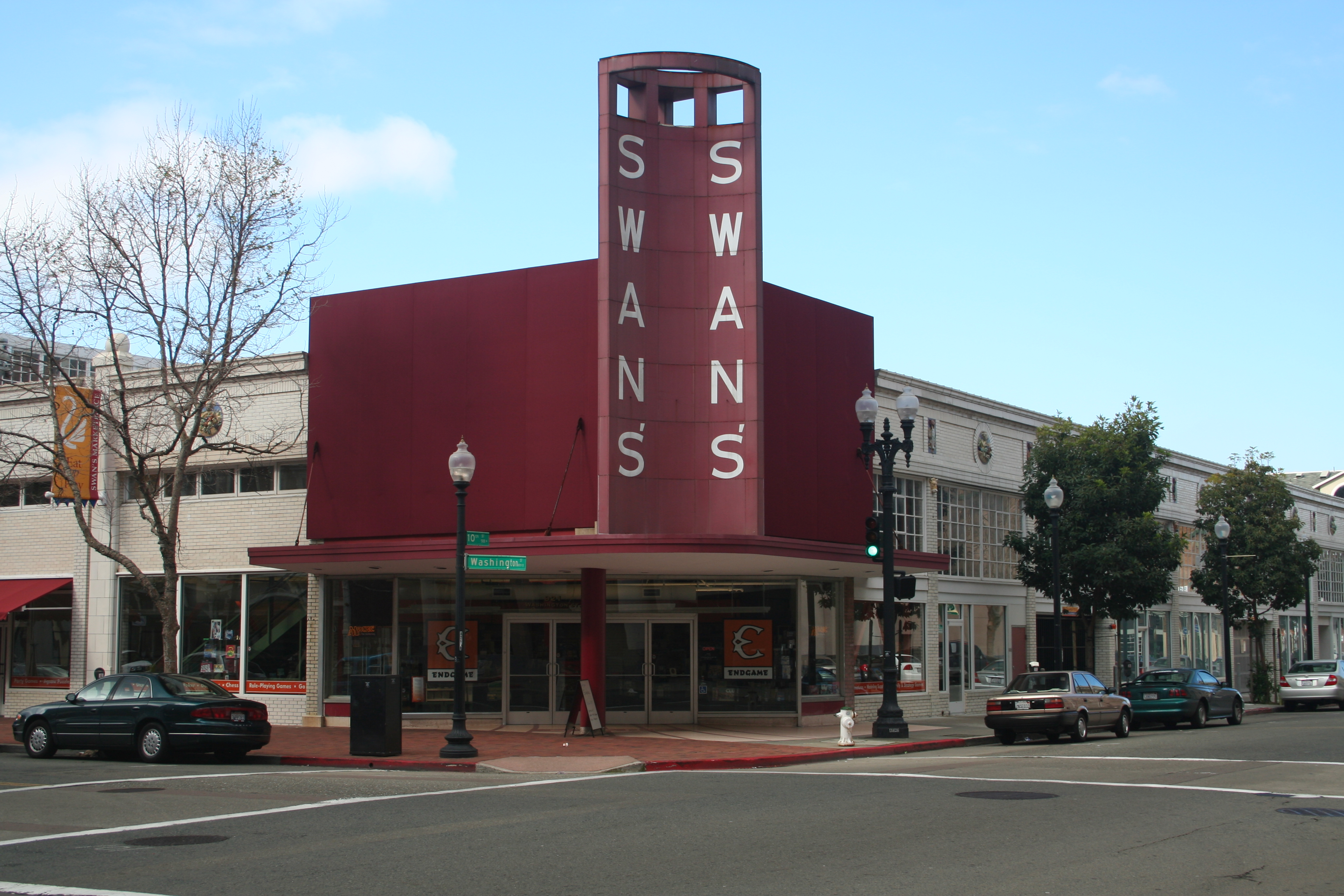 921 Washington Street. The Swan Building in Old Oakland. Now home to End Game. Photographed by and copyright of (c) David Corby (User:Miskatonic, uploader) 2006